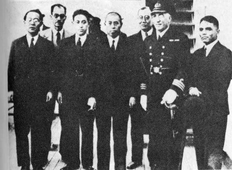 Imperial Japanese Navy (then) Rear Admiral Isoroku Yamamoto (center) after arriving in Southampton, England for the 1934 London Naval Conference